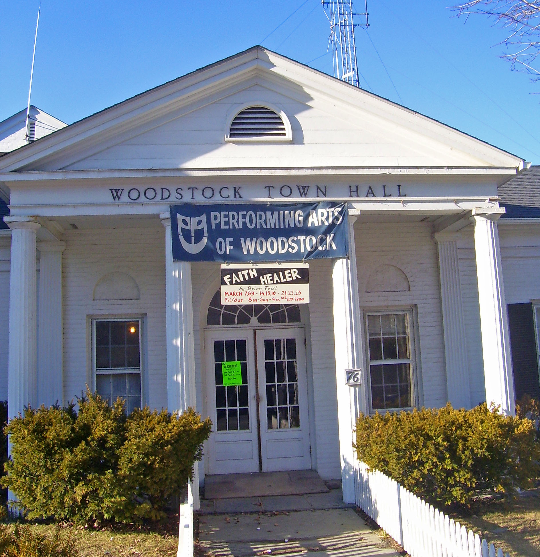 Woodstock, NY, USA town hall